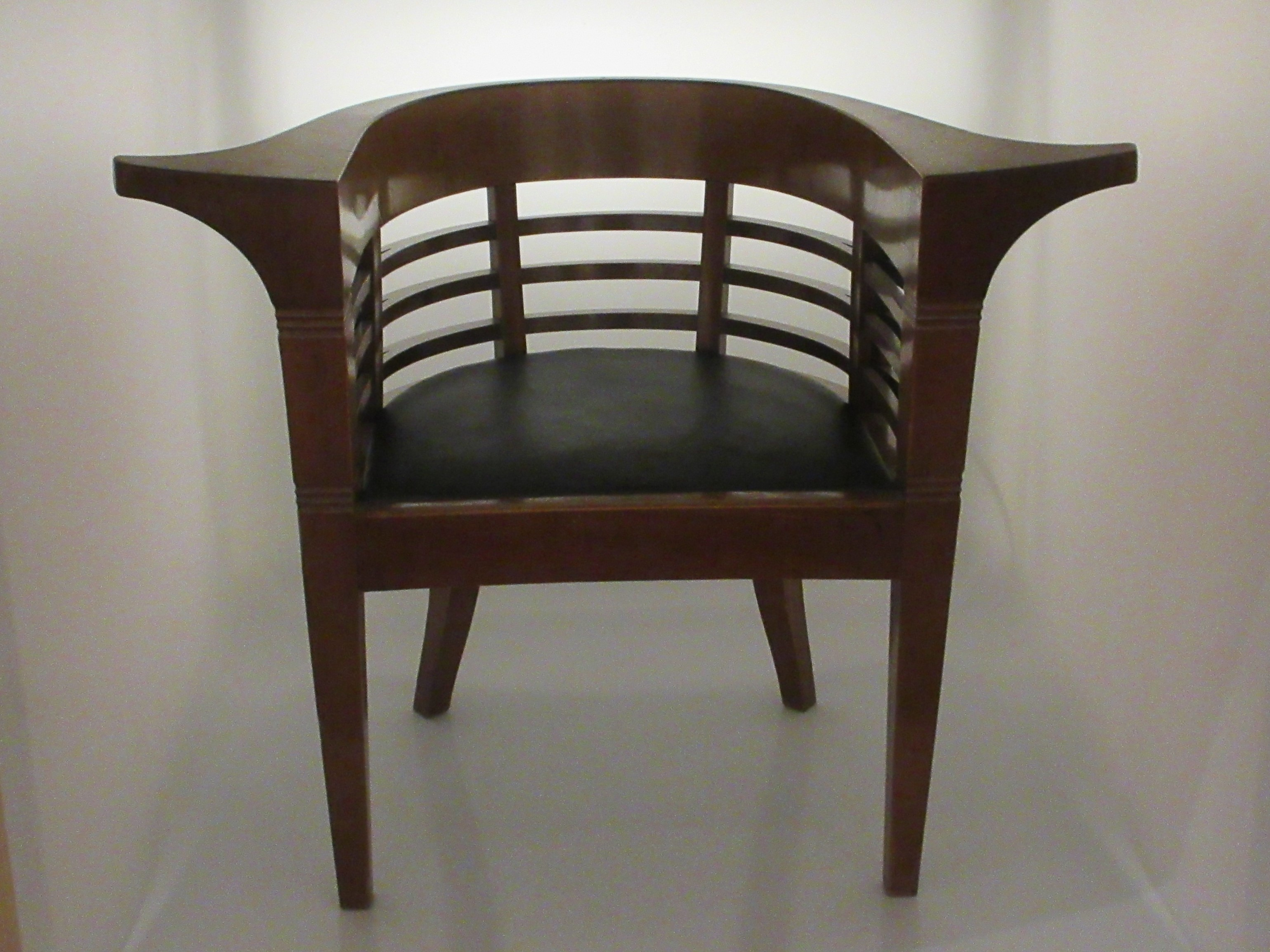 Chair designed by Johan Rohde in 1898 for Dr. Alfred Pers on display in the Danish Design Museum in Copenhagen, Denmark